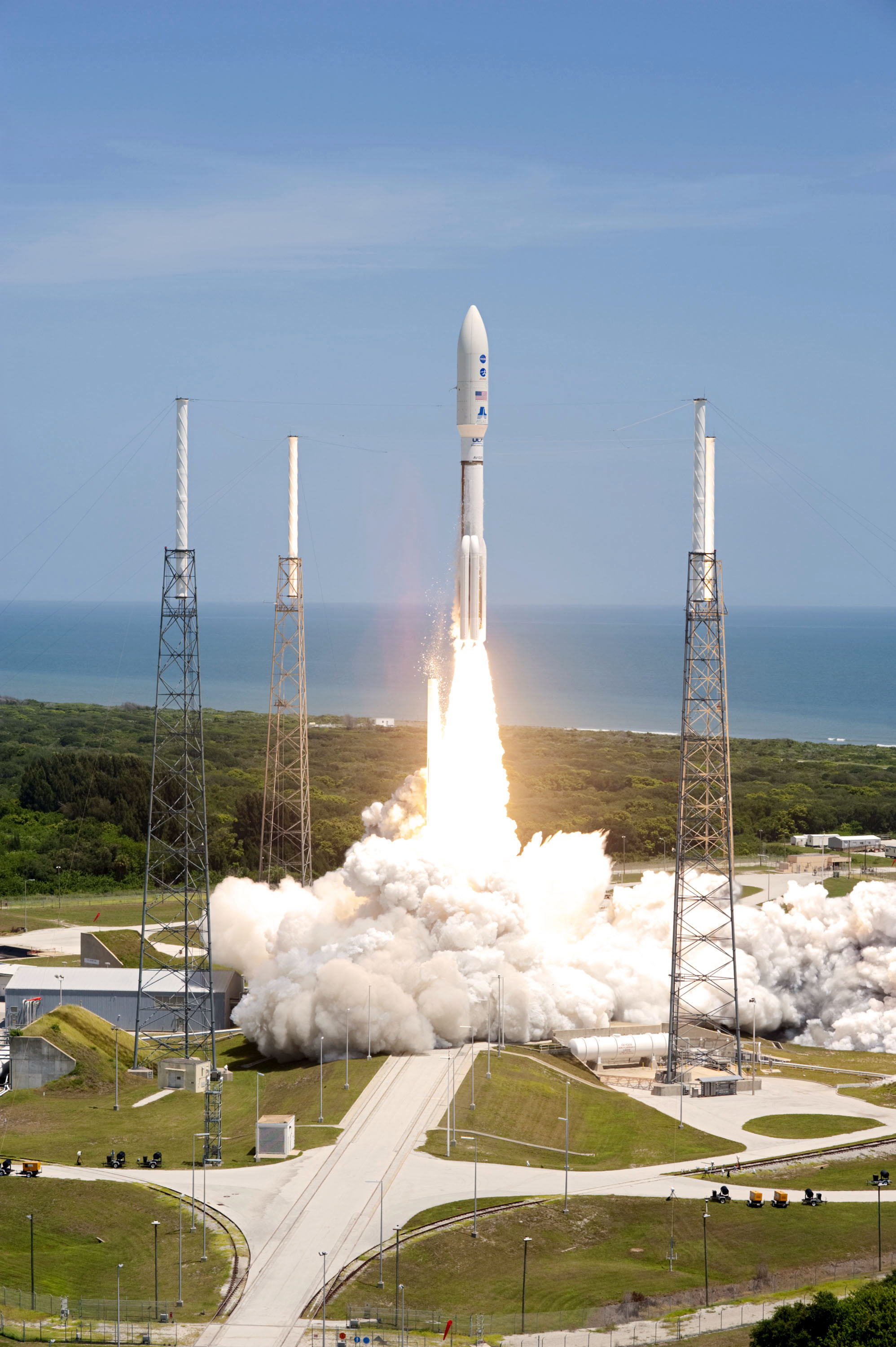 CAPE CANAVERAL, Fla. -- Rising from fire and smoke, NASA's Juno planetary probe, enclosed in its payload fairing, launches atop a United Launch Alliance Atlas V rocket. Leaving from Space Launch Complex 41 on Cape Canaveral Air Force Station in Florida, the spacecraft will embark on a five-year journey to Jupiter. Liftoff was at 12:25 p.m. EDT Aug. 5. The solar-powered spacecraft will orbit Jupiter's poles 33 times to find out more about the gas giant's origins, structure, atmosphere and magnetosphere and investigate the existence of a solid planetary core. For more information, visit